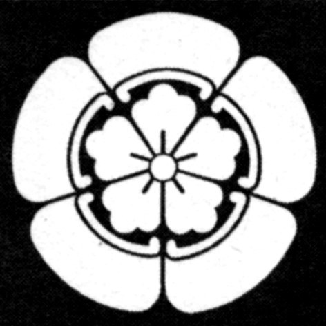 Crest of Akimoto clan